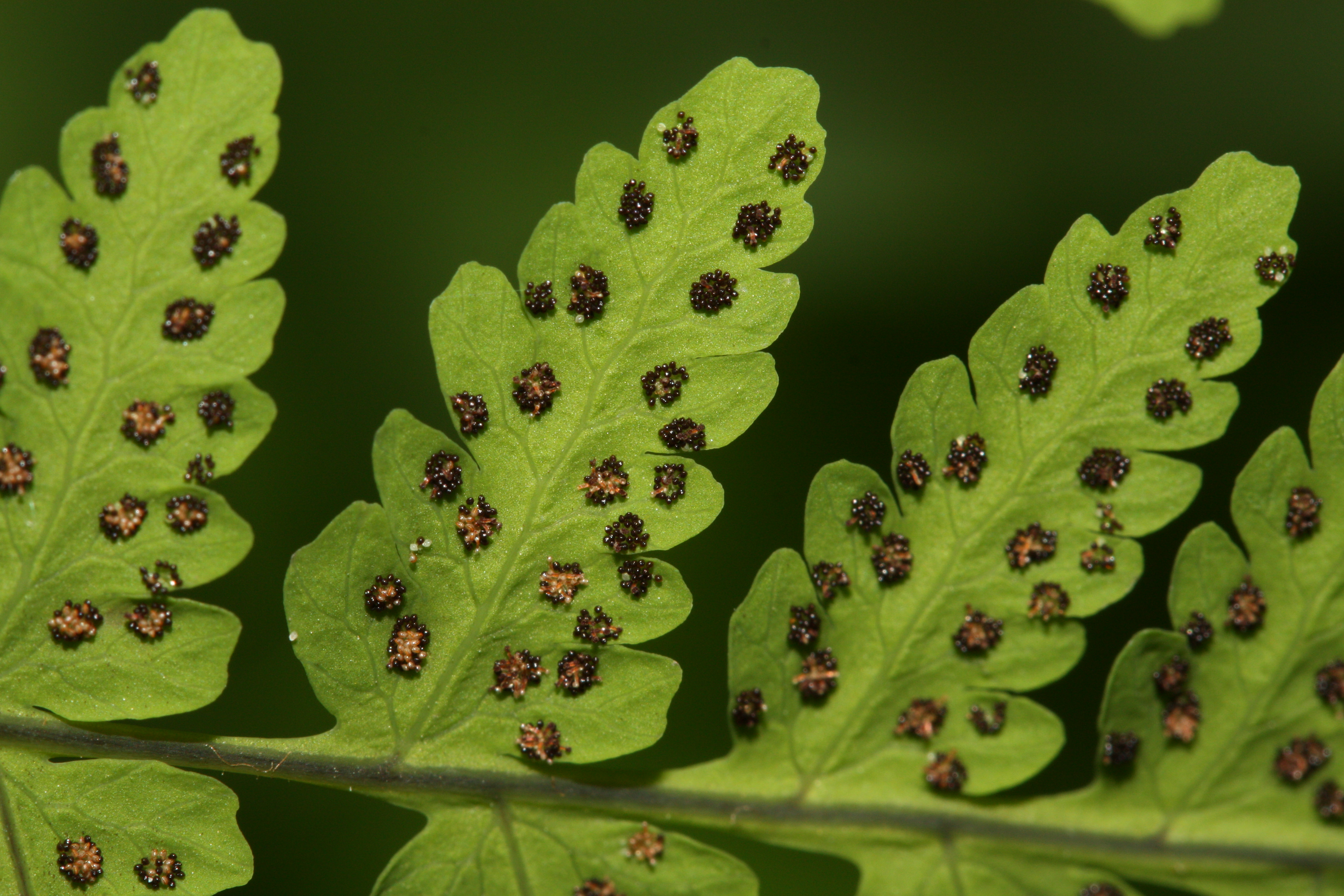 Common Oak Fern, Northern Oak Fern